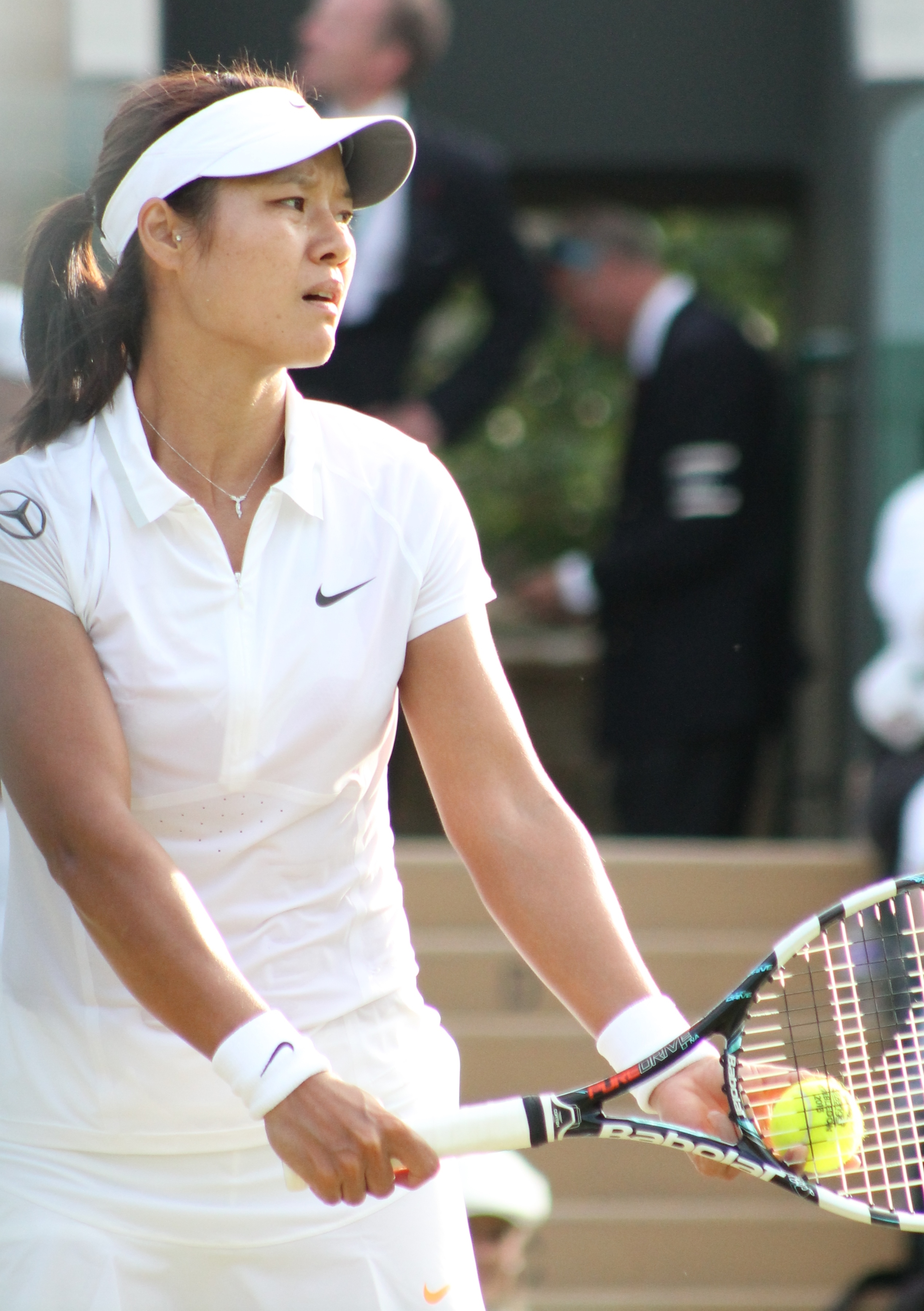 Li serving during the 2013 Wimbledon